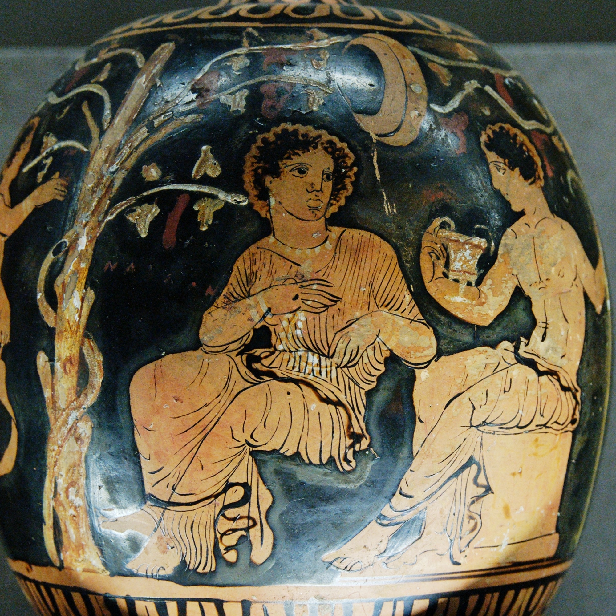 From left to right: Eros (barely seen here), Ariadne and Dionysos holding a kantharos. Apulian red-figured squat lekythos, ca. 380–370 BC. From Tarentium?